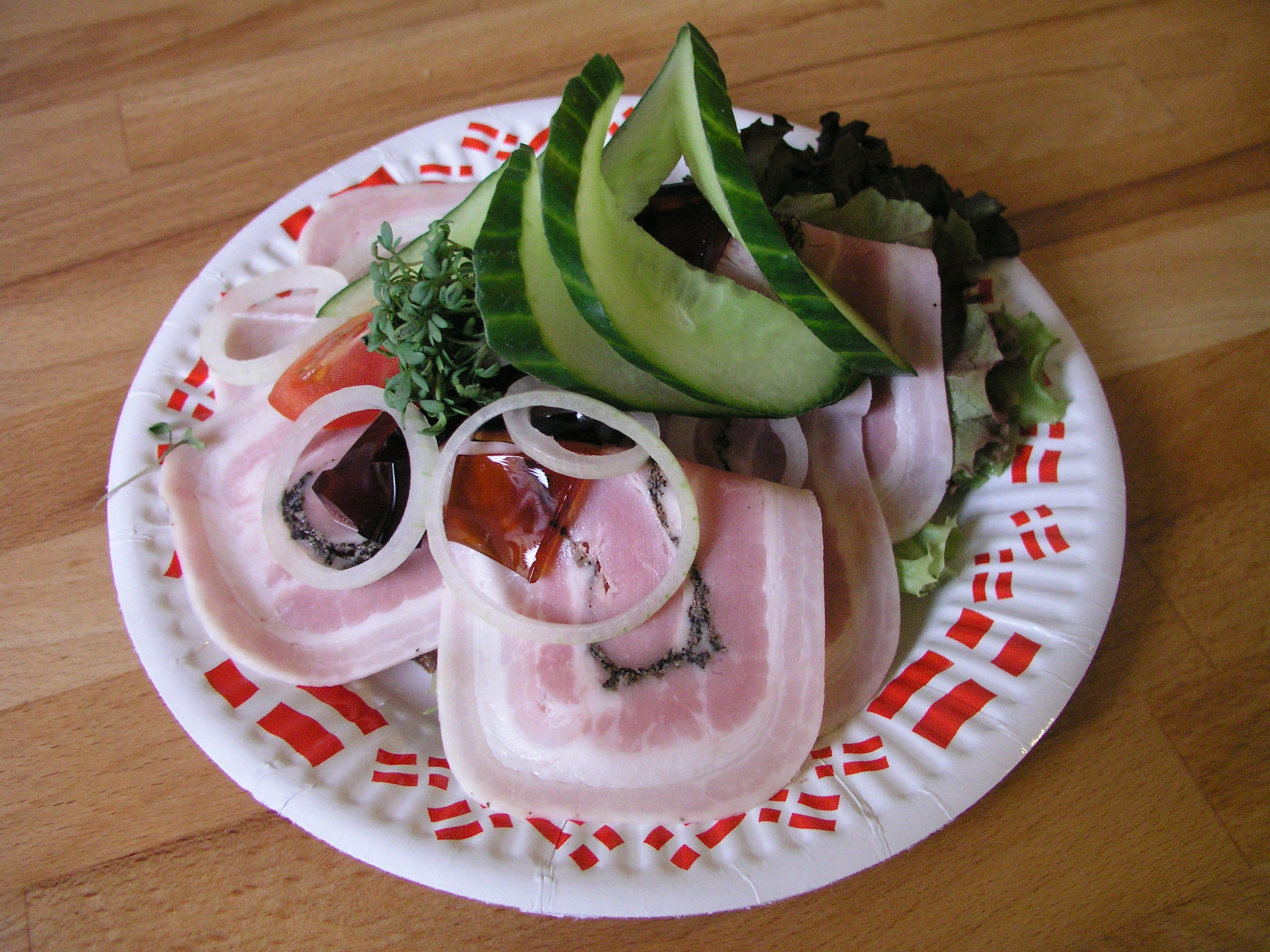 Danish open sandwich (smørrebrød) on dark rye bread (completely covered) with rullepølse (lit. rolled sausage, a spiced meat roll), salad, cucumber, meat jelly, onion rings, garden cress, and tomato.